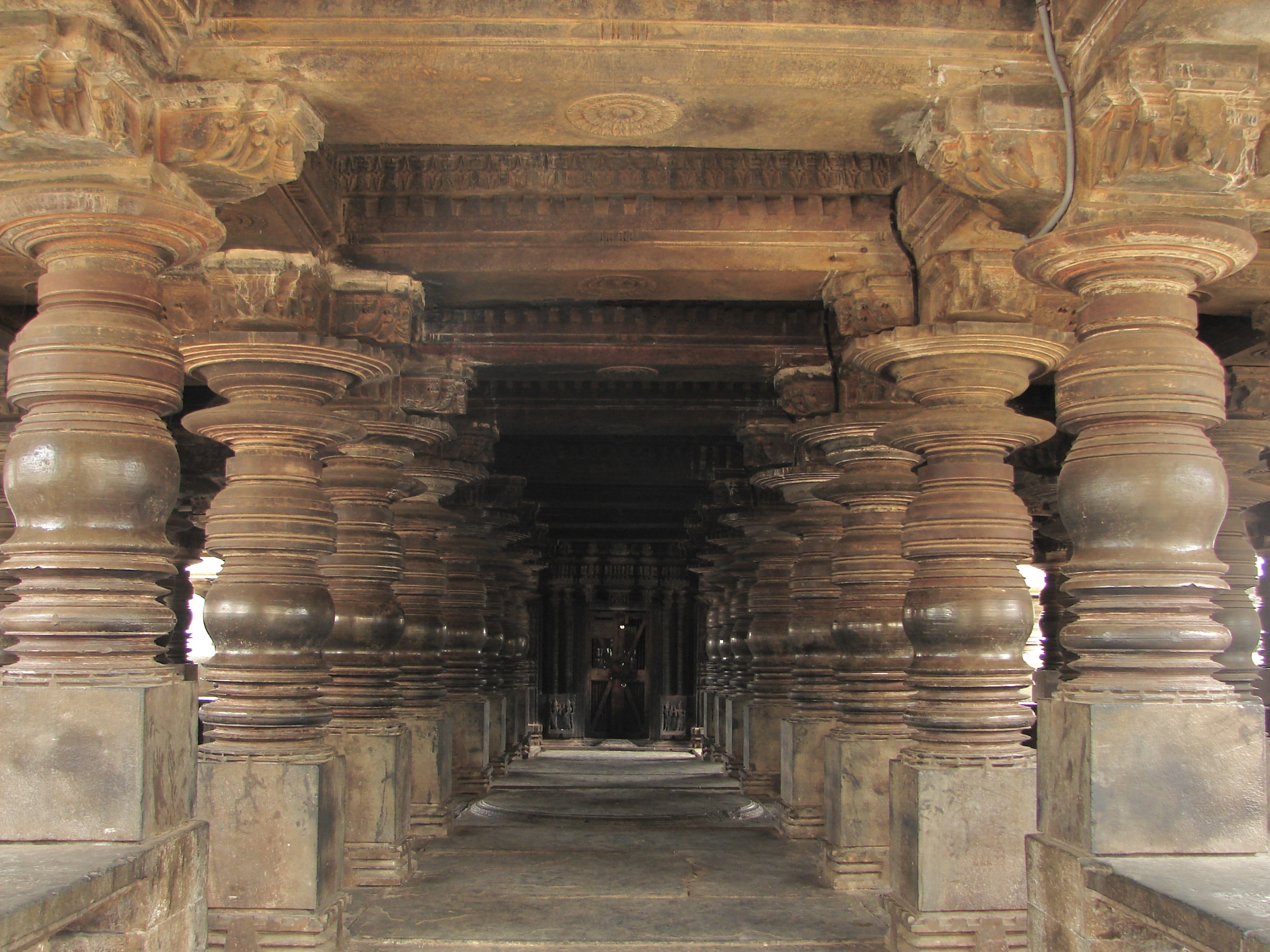 This Photograph was taken by self (Dinesh Kannambadi) at the Harihareshwara temple, in Harihar, Davangere district, Karnataka state, India on July 2007